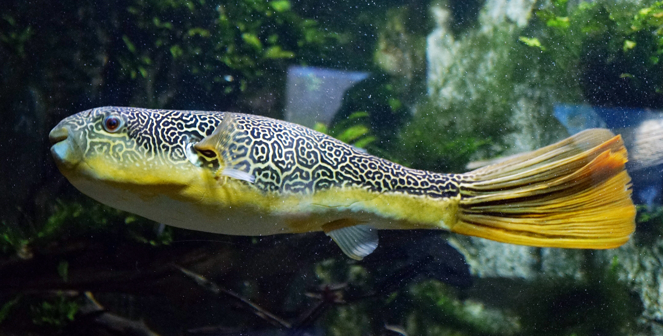 Mbu pufferfish in Särkänniemi Aquarium.